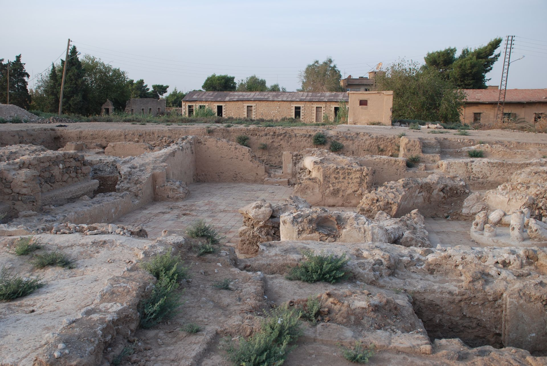 Al-Hasakah, Syria, excavation on mound in city centre